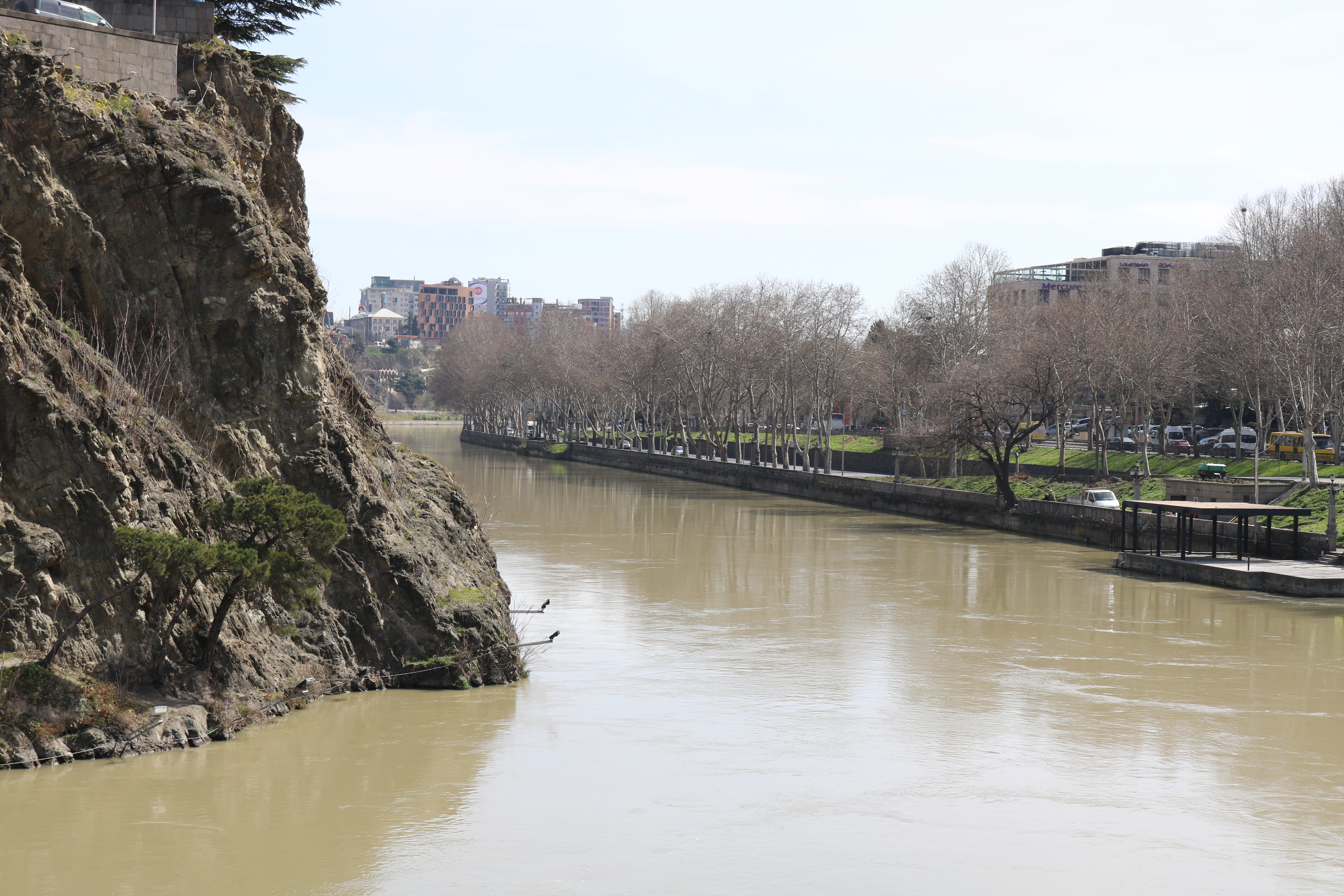 View of the river Mtkvari from Metekhi Bridge.